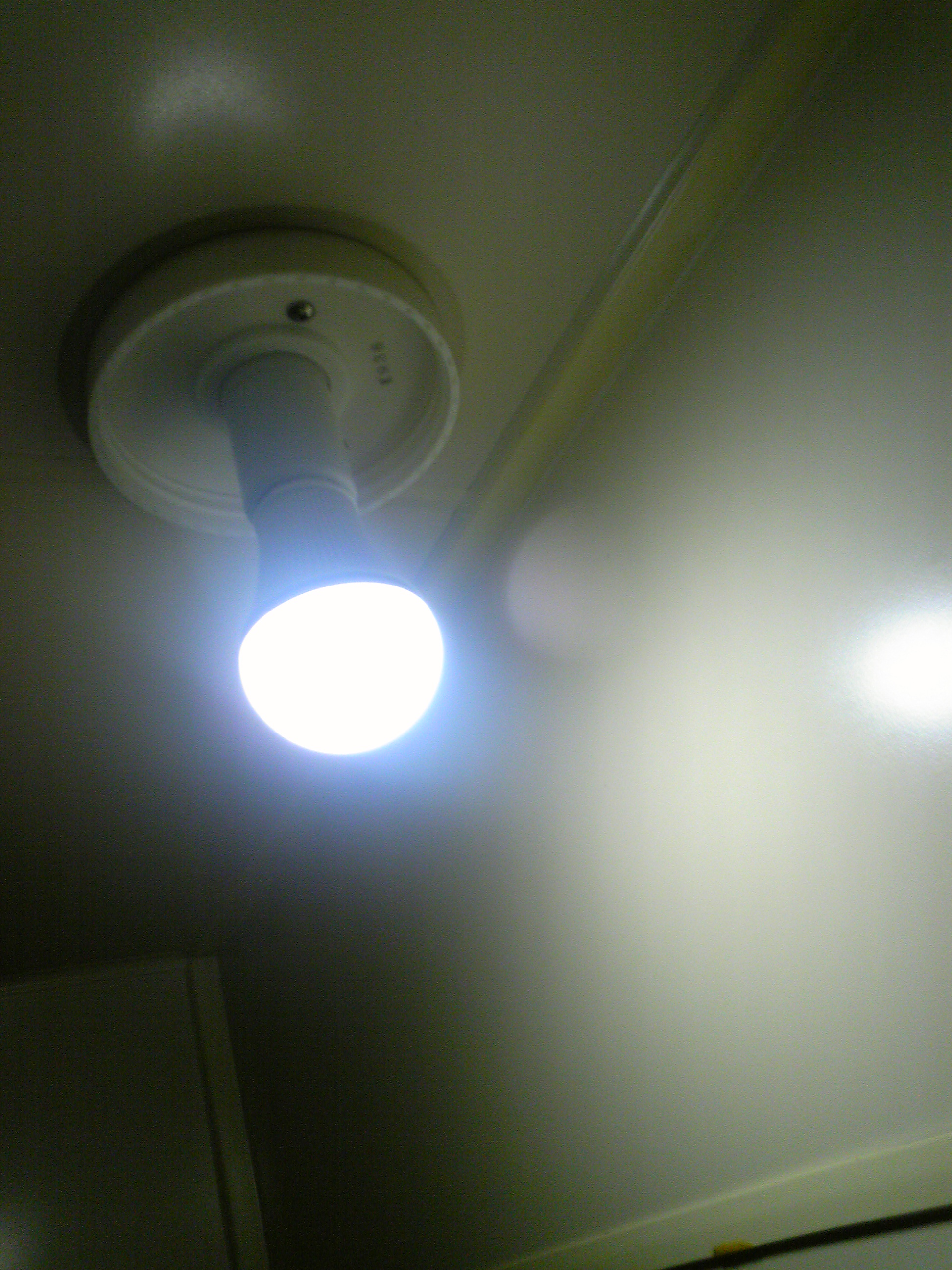 At lighting by Sharp Corporation LED Bulbs DL-L601N.